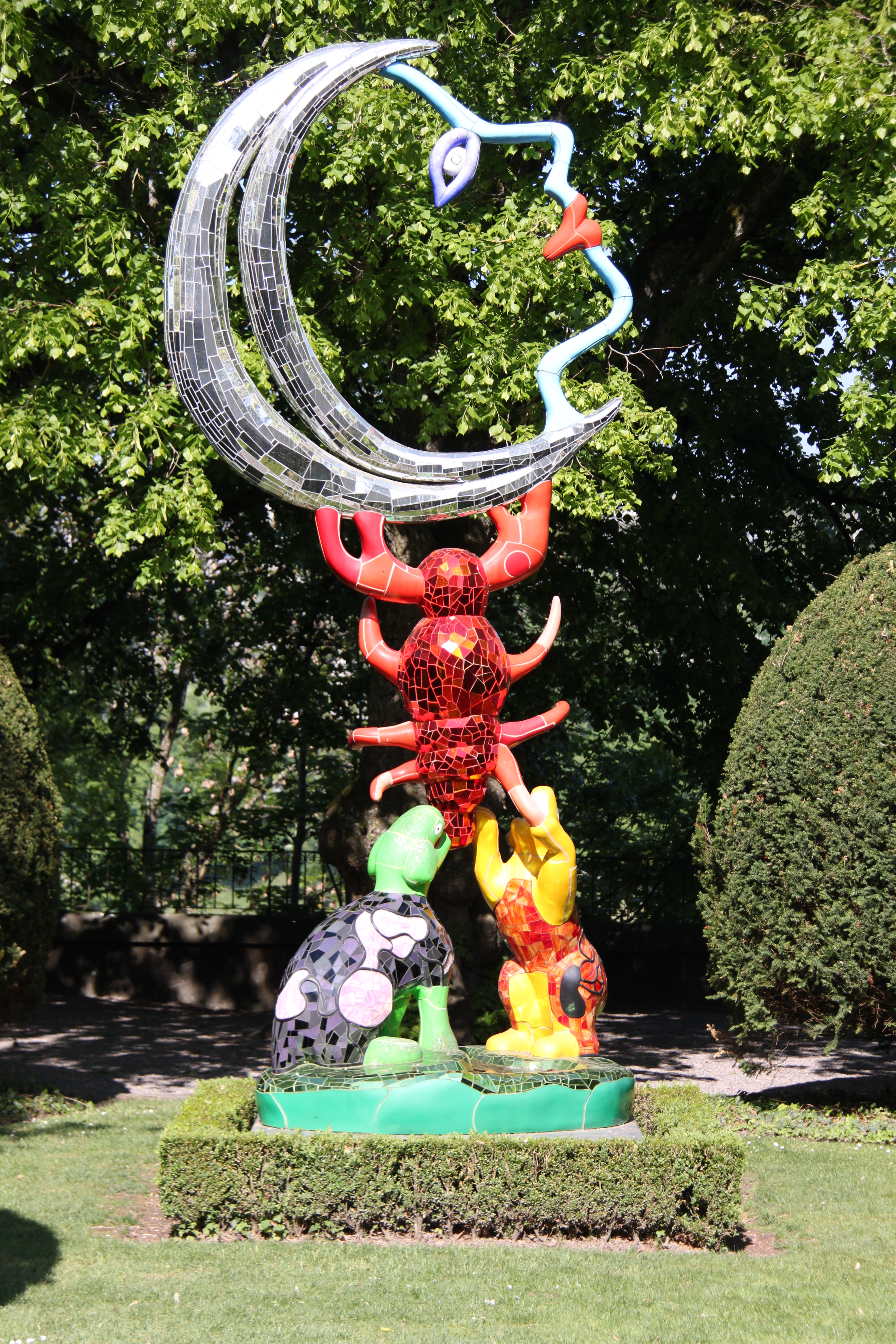 La Grande Luna in Fribourg, Switzerland. Work of Niki de Saint Phalle.